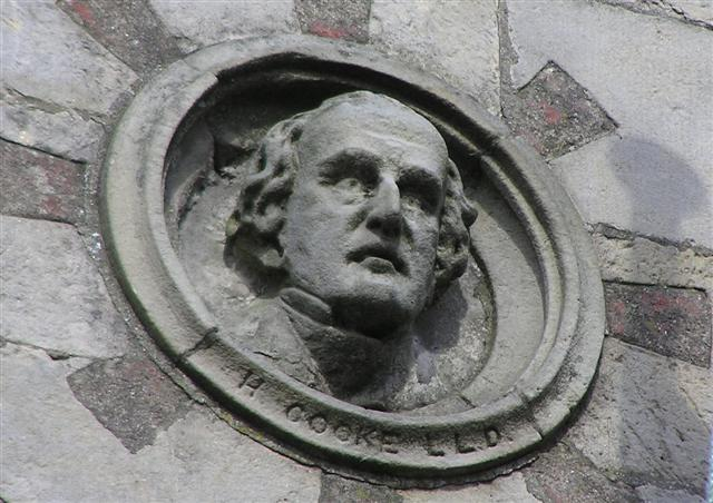 Stone relief, Omagh Orange Hall (2). This one, at the centre, reads "H. Cooke LLD". He studied chemistry, geology, anatomy, and medicine and was awarded an LLB (an honorary degree of Doctor of Laws). He opened the new Trinity Presbyterian Church in Omagh in 1856. Orangemen carry his likeness on their banners (though he was no Orangeman), and his statue in Belfast (erected in September 1875) is still a symbol of the Protestantism of the north of Ireland.